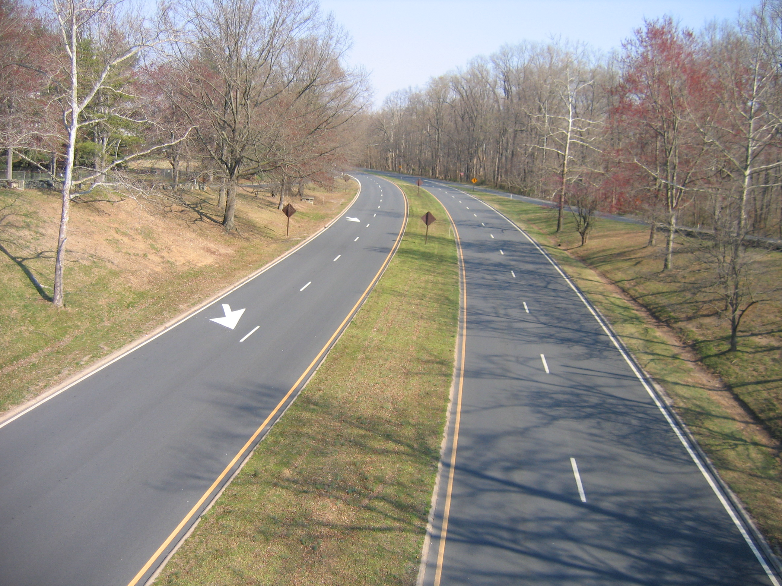 Clara Barton Parkway as viewed from an overpass at the access to the Naval Surface Warfare Center Carderock Division located at the David Taylor Model Basin. This image is oriented eastward.